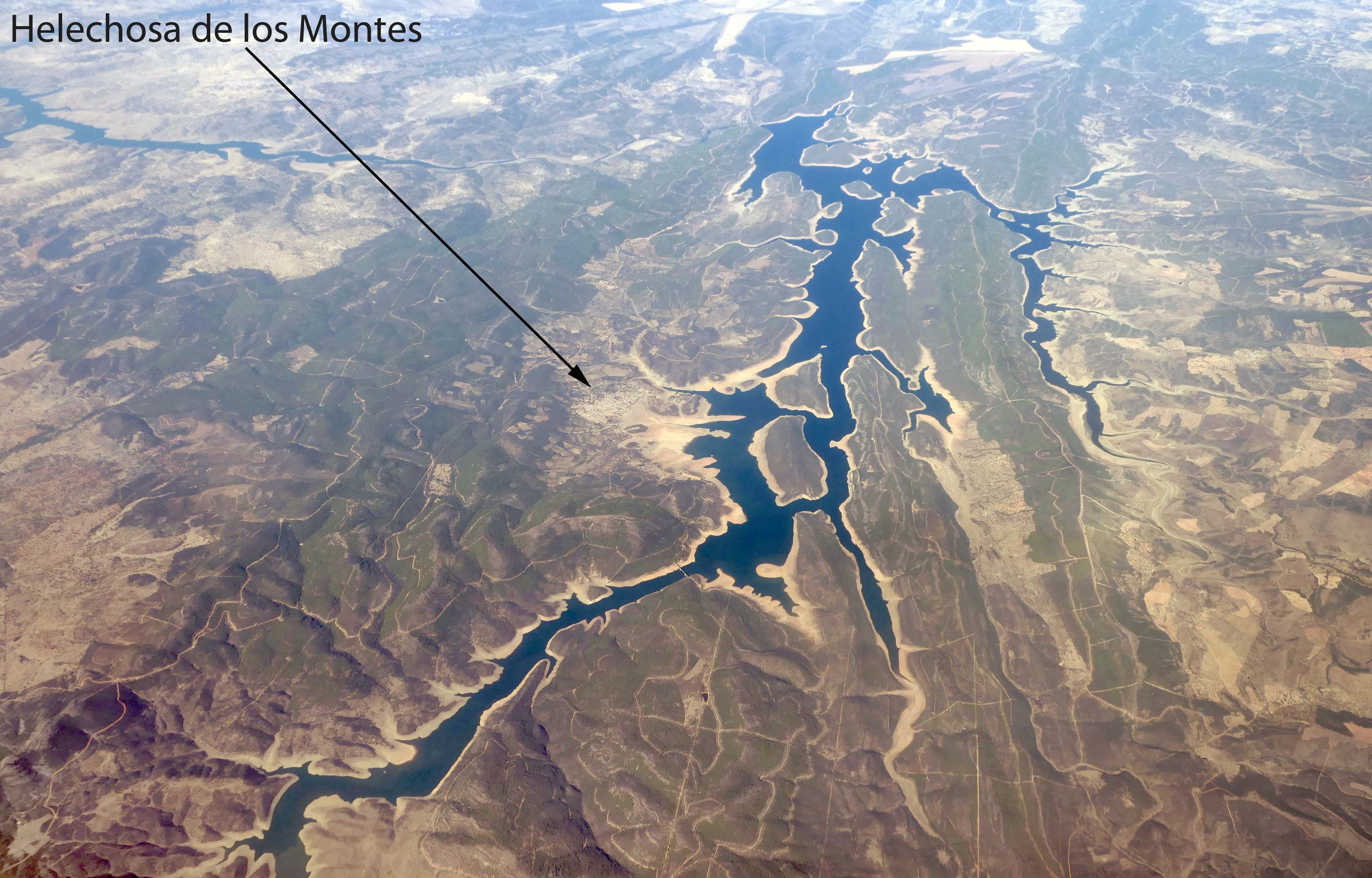 An aerial view of Cíjara reservoir in the province of Extremadura, Spain. Also shows the town of Helechosa de los Montes.